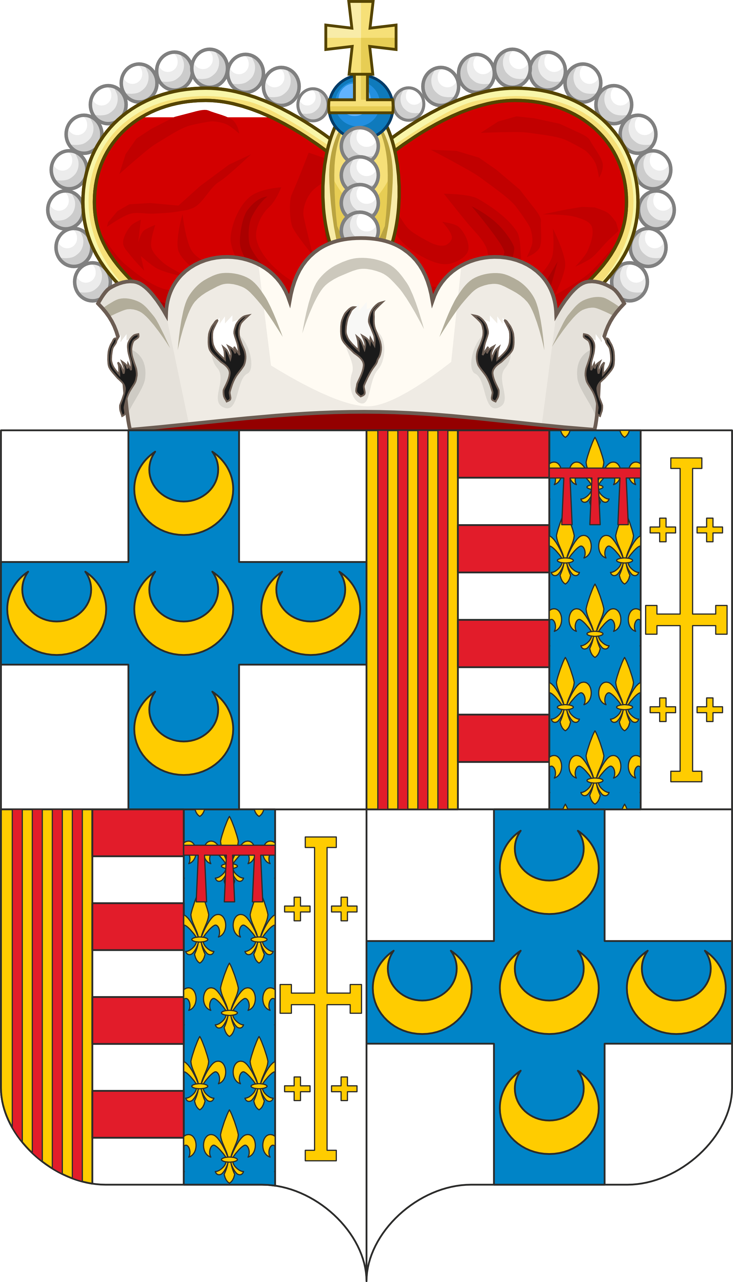 Coat of Arms of Ottavio Piccolomini Pieri d'Aragona, Prince of Holy Roman Empire, Duke of Amalphi, general of 30 years war